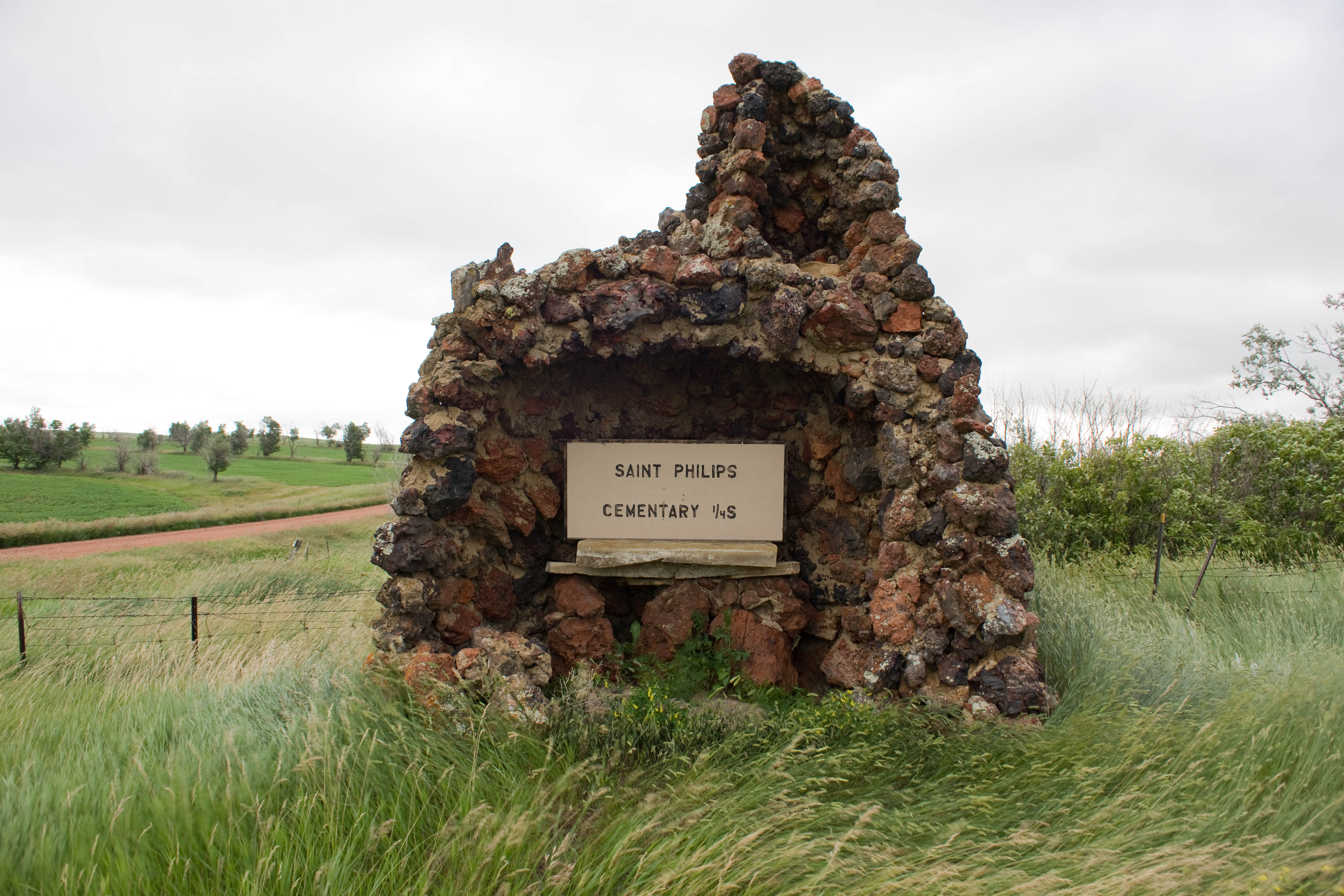 Sign at Saint Philips Cemetery in Hirschville, North Dakota, 2009